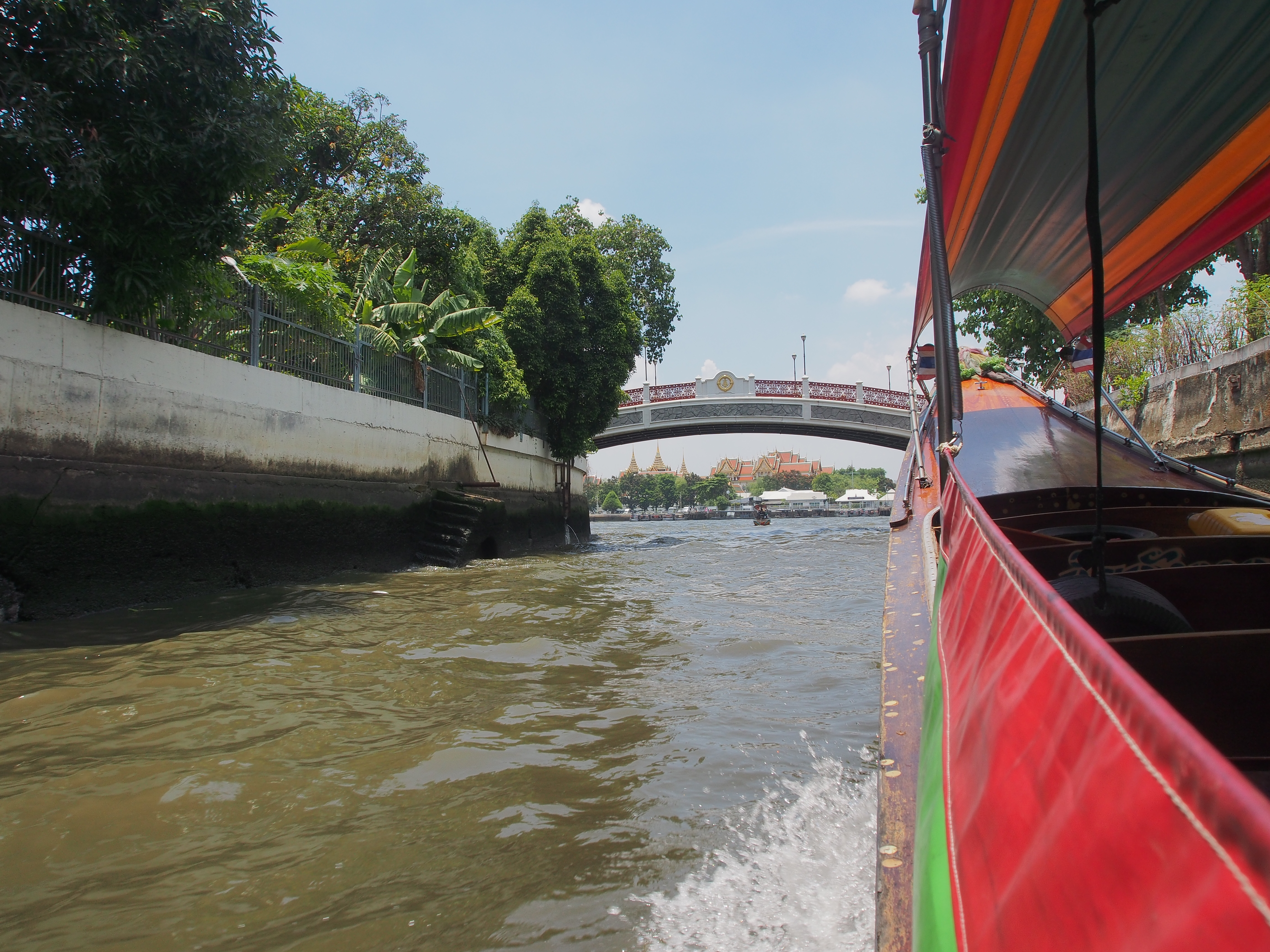 Wat Arun, the most iconic temple of Bangkok is located on Thonburi side of Bangkok, almost opposite to the Grand Palace and Wat Pho. Built during seventeenth century on the bank of the Chao Phraya river, its full name 'Wat Arun Ratchawararam Ratchawaramahawihan' is rather hard to remember so it is often called 'Temple of Dawn. The distinctive shape of Wat Arun consists of a central 'Prang' (a khmer style tower) surrounded by four smaller towers all incrusted with faience from plates and potteries. The stairs to reach a balcony on the main tower are quite steep, usually easier to climb up than to walk down, but the view from up there is really worth it.